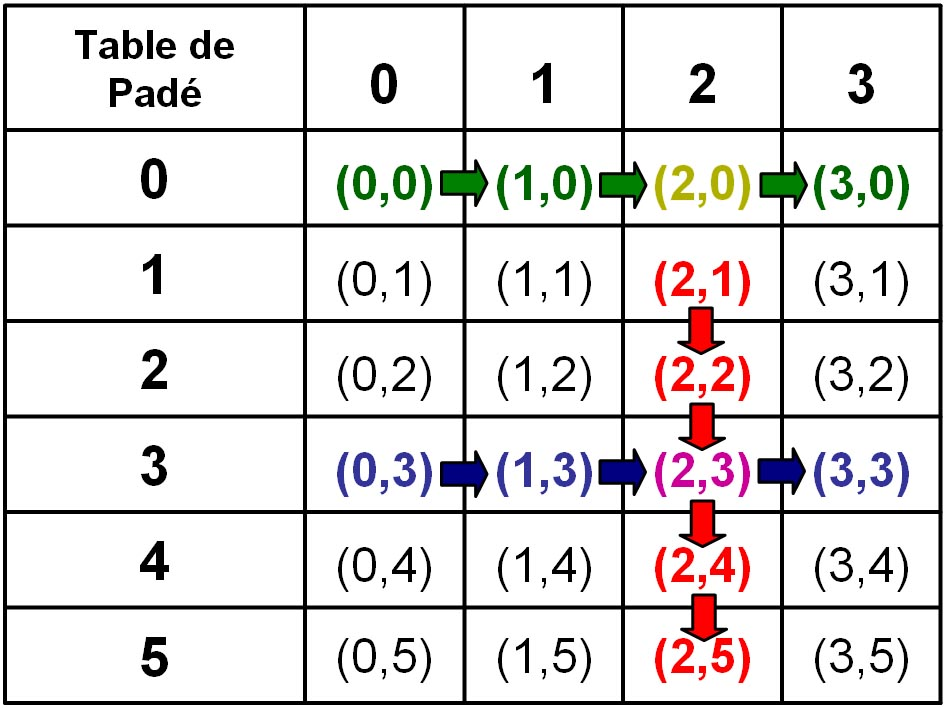 Padé table for a sequence of type 2